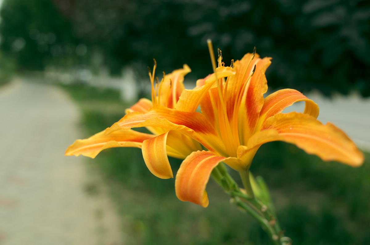 We are planted in China for about 3,000 years. People use us as food or medicine. Some people may eat our flowers with noodles in Sichuan province, China. Our height is about 50 cm and our flowers' diameter is about 10 cm.